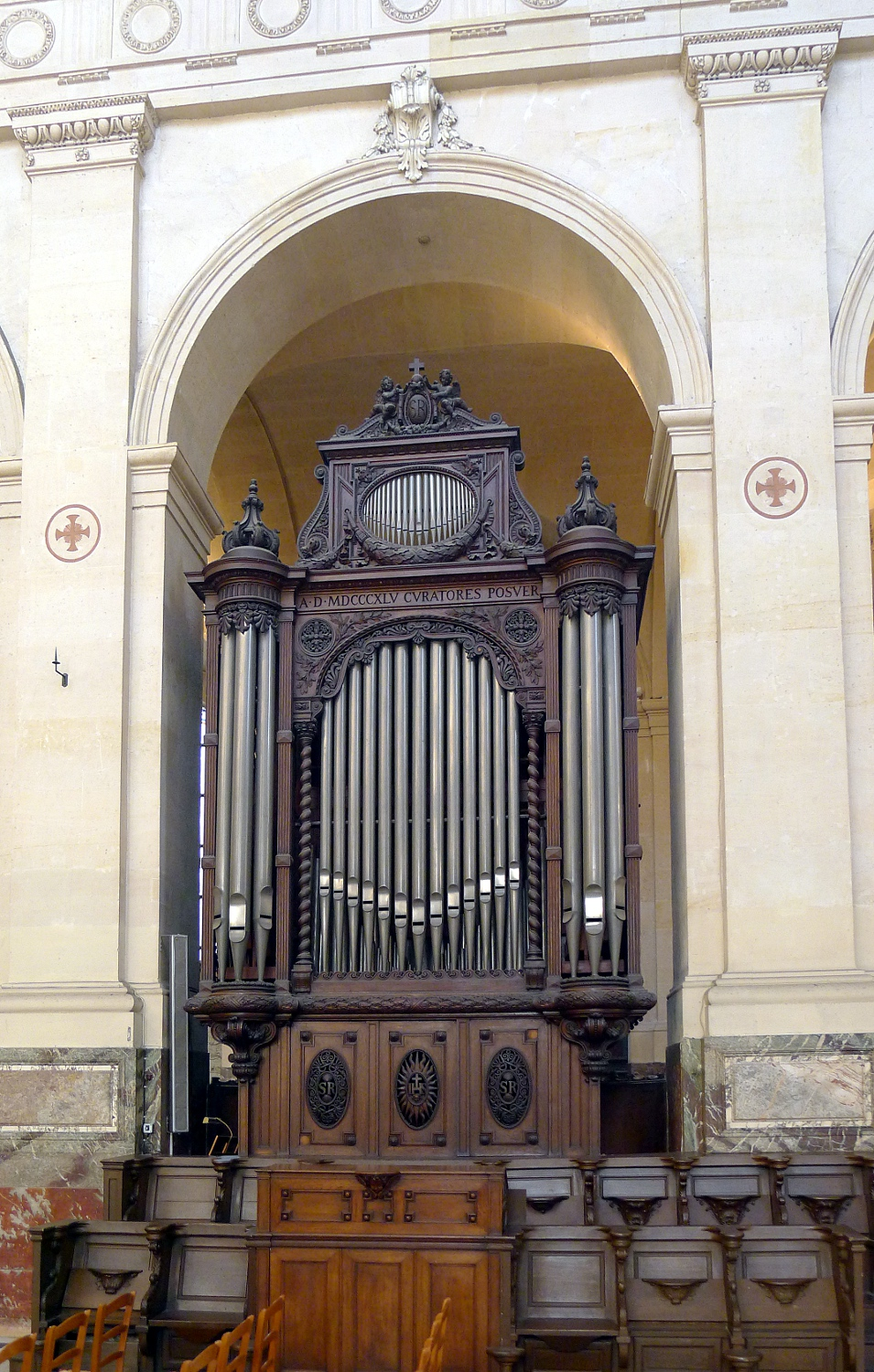 Saint-Roch church - Paris